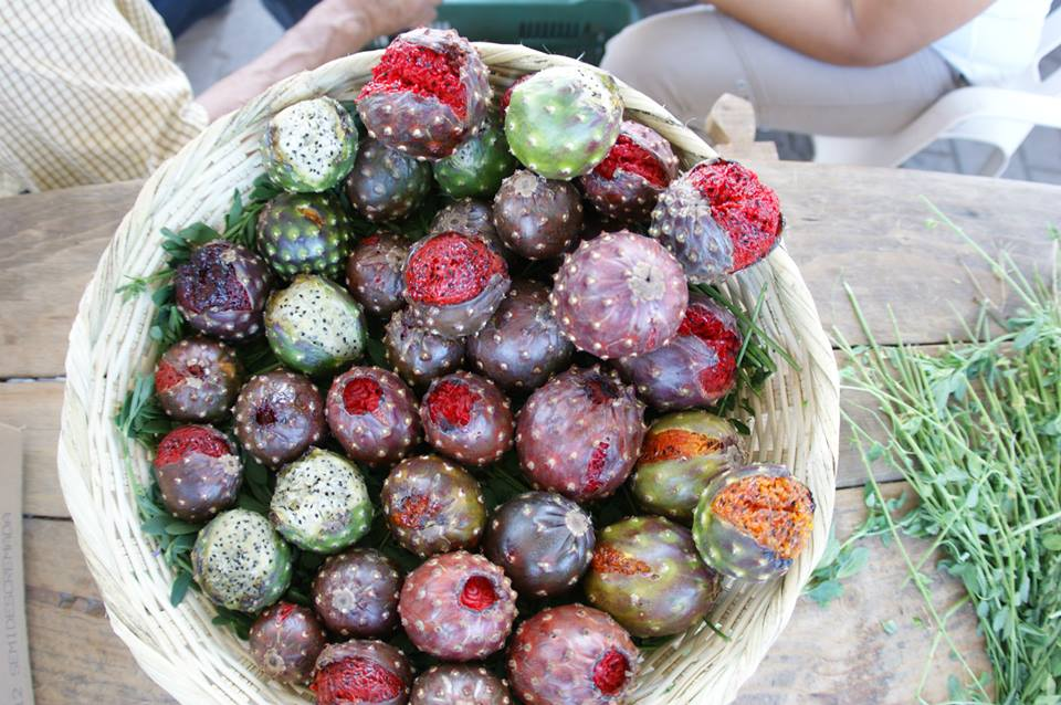 pitayas